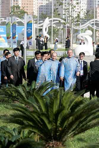 HANOI. Before the official photo in host country\'s traditional attires - with the President of China Hu Jintao and U.S. President George W. Bush.